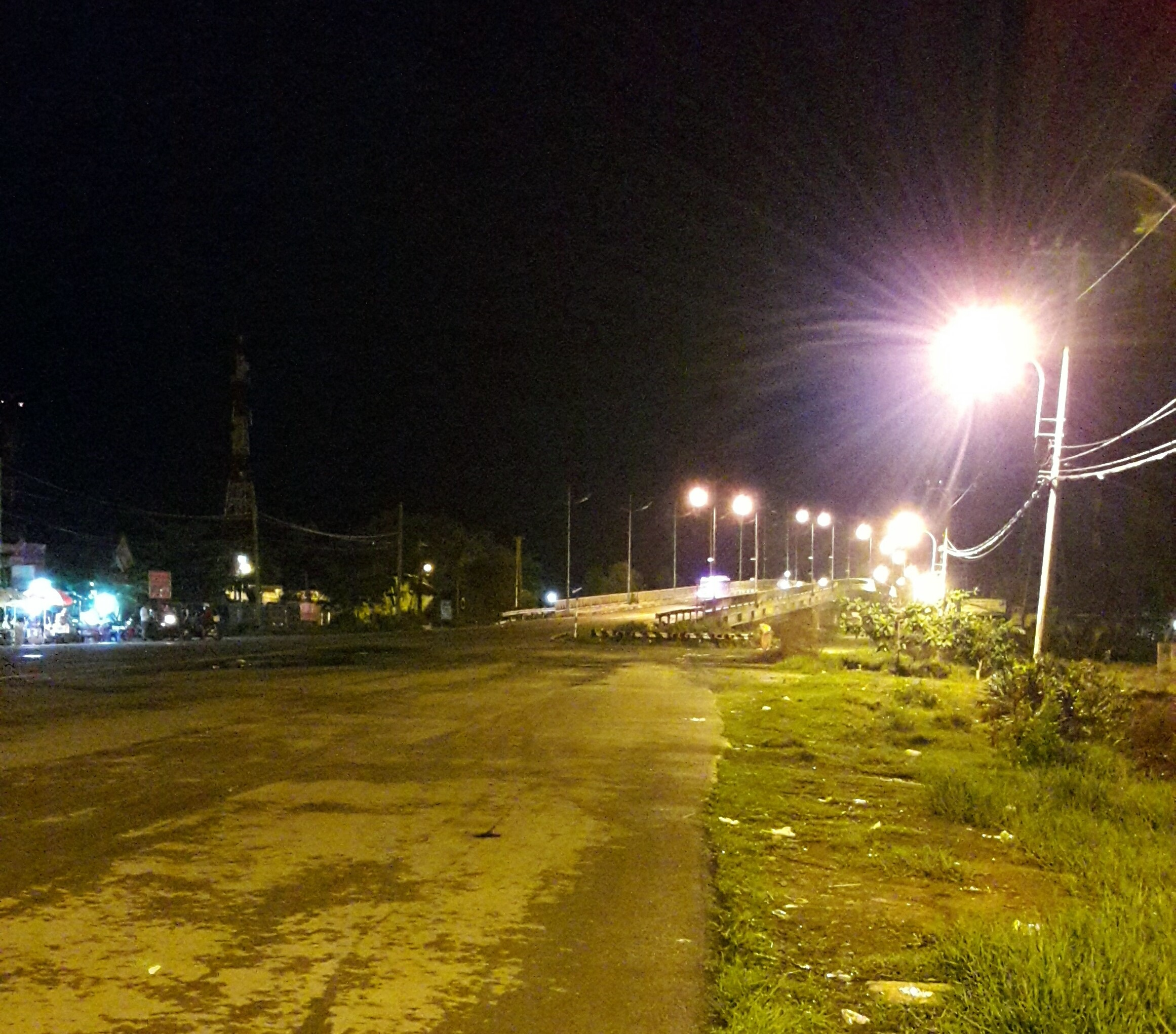 Ban đêm trên đường Rừng Sác, đoạn gần cầu An Nghĩa